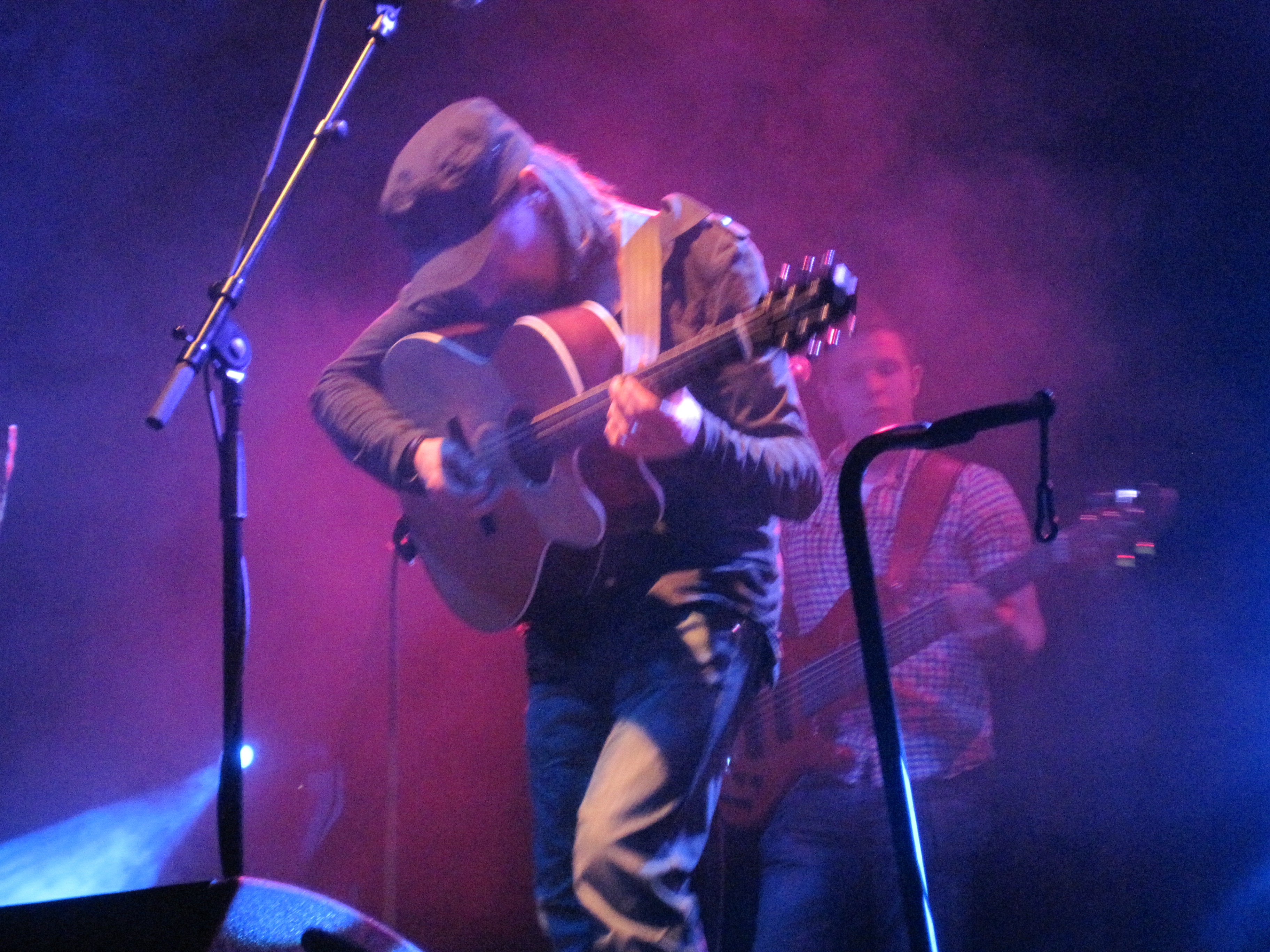 Stuart and Colin from Wolfstone